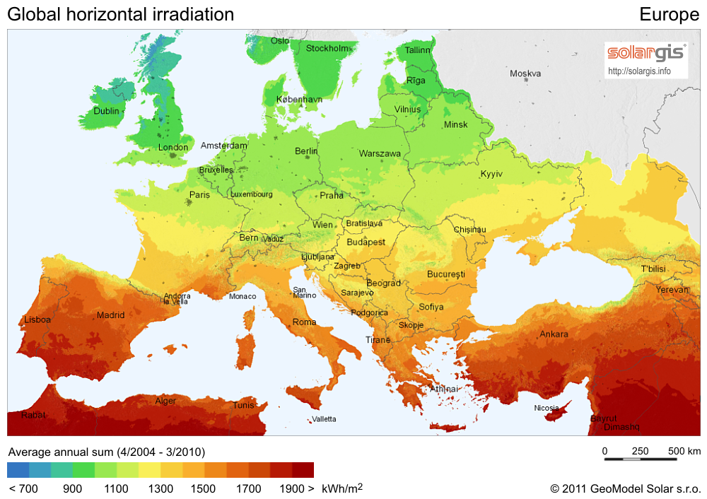 Solar Radiation Map of Europe: Global Horizontal Irradiance Map of Europe, SolarGIS 2011